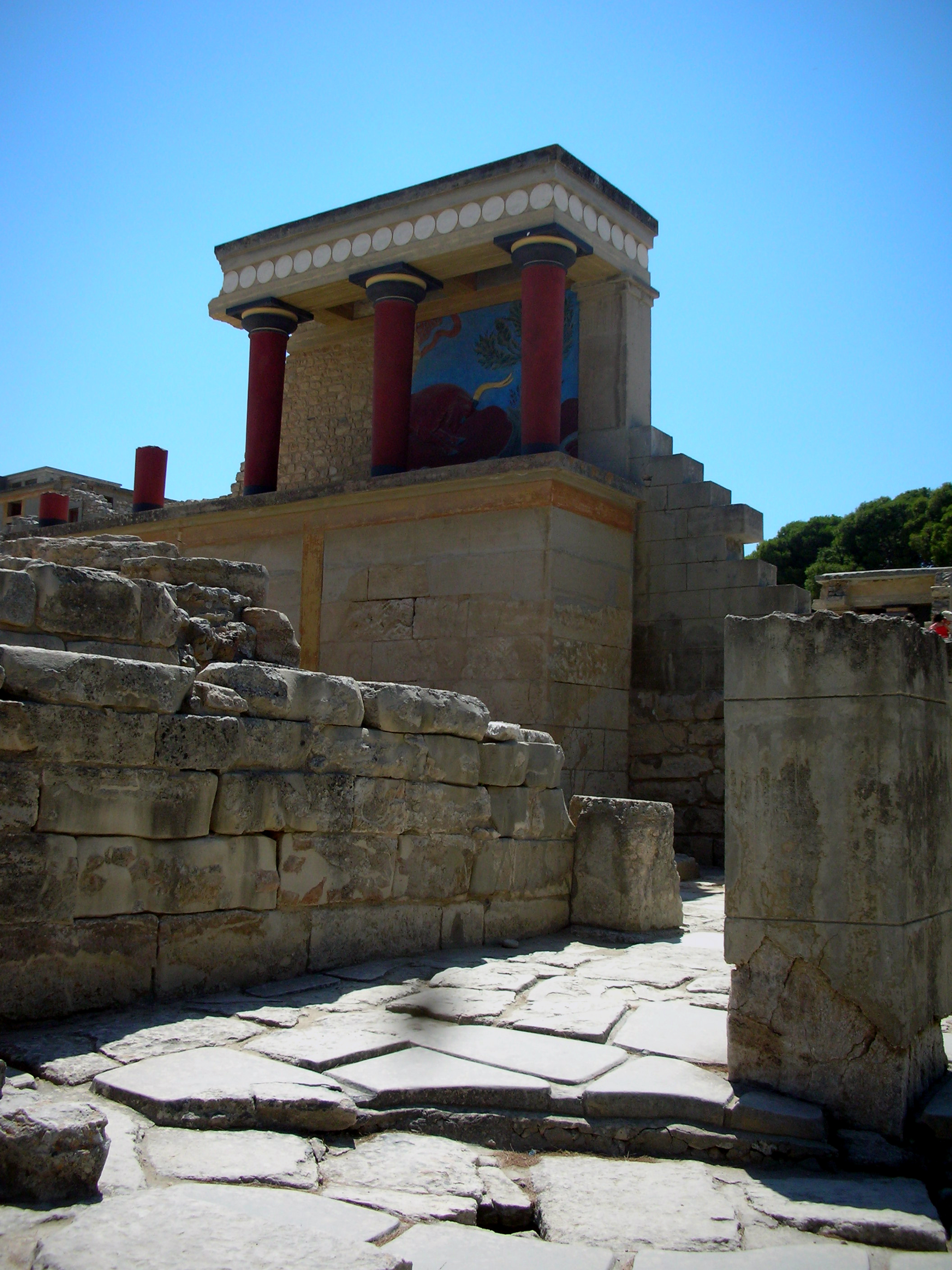 Knossos palace in Heraklion, Crete, Greece